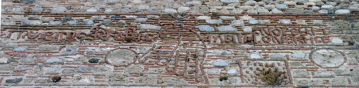 Brick inscription on Orestes tower in Serres. Photography taken by Marsyas on 070/31/2004.